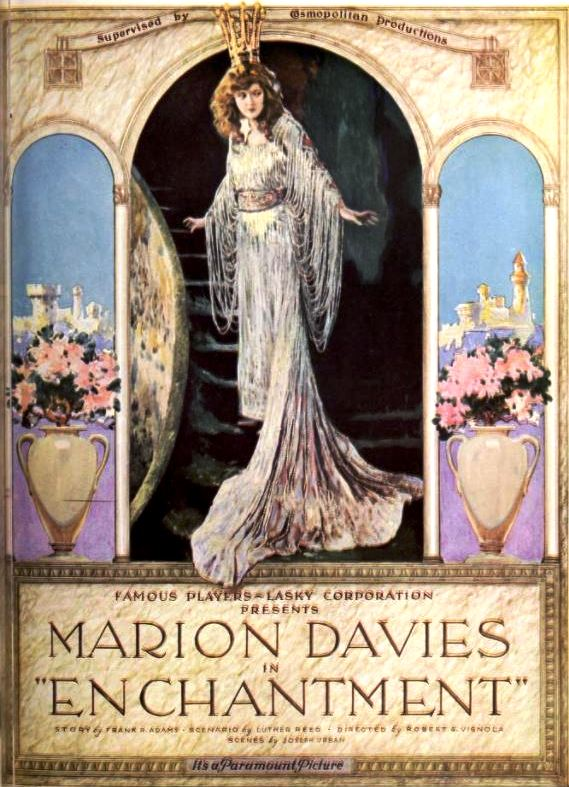 Advertisement for the American romantic comedy Enchantment (1921) with Marion Davies, from the insert after page 18 of the November 26, 1921 Exhibitors Herald.